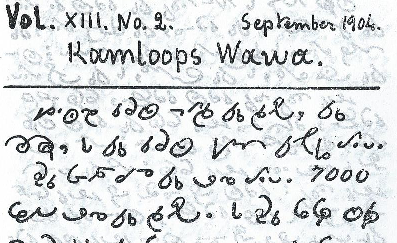 An example of the Chinook Jargon shorthand writing system, from the religious paper "Kamloops Wawa".